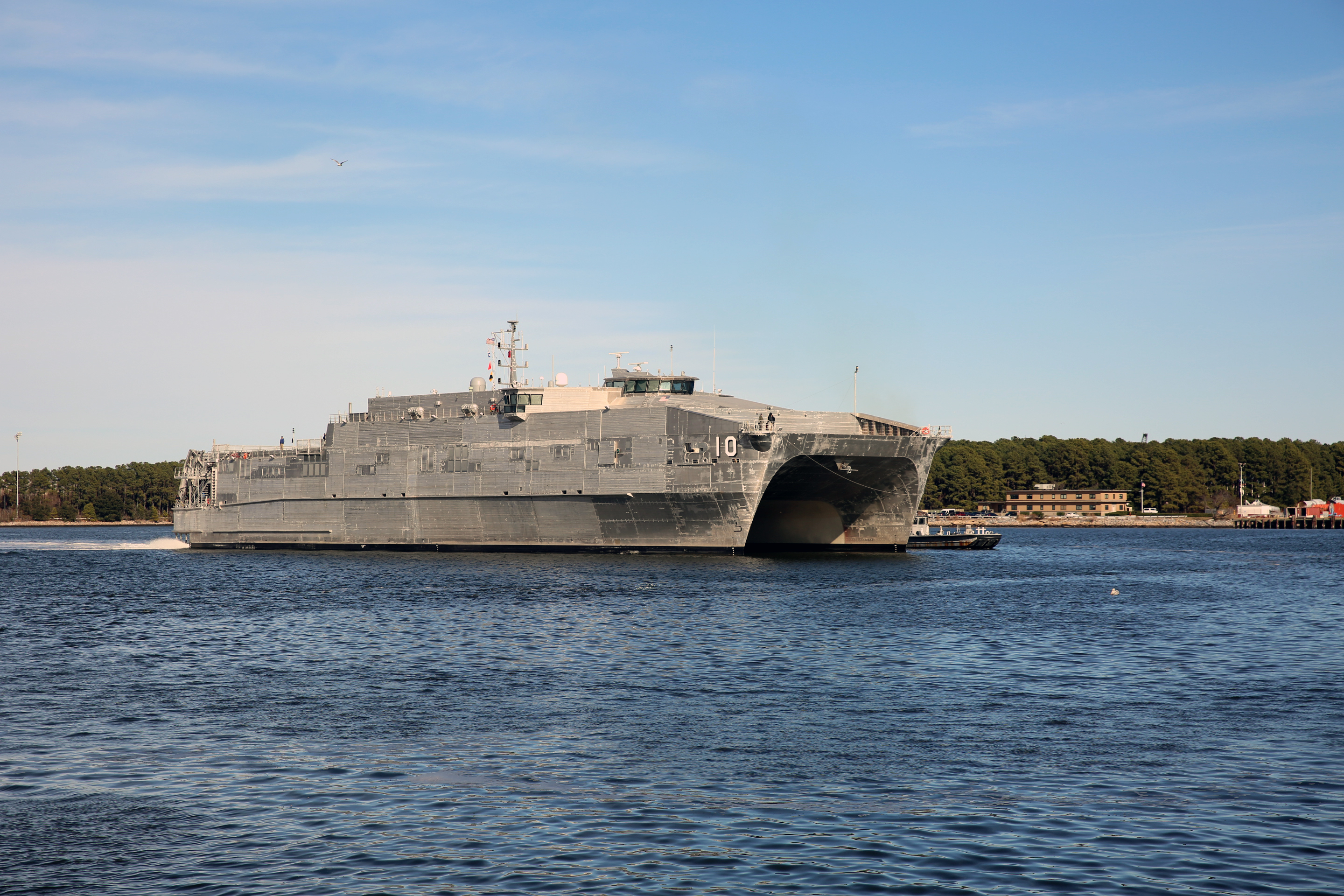 190214-N-CX372-0034 VIRGINIA BEACH, Va. (Feb. 14, 2019) The Spearhead-class expeditionary fast transport ship USNS Burlington (T-EPF 10) pulls into Joint Expeditionary Base Little Creek-Fort Story, Feb. 14, 2019. Burlington is the U.S. Navy’s newest expeditionary fast transport ship and will be used- transport personnel and equipment in support of a variety of Department of Defense missions. (U.S. Navy photo by Brian Suriani/Released)